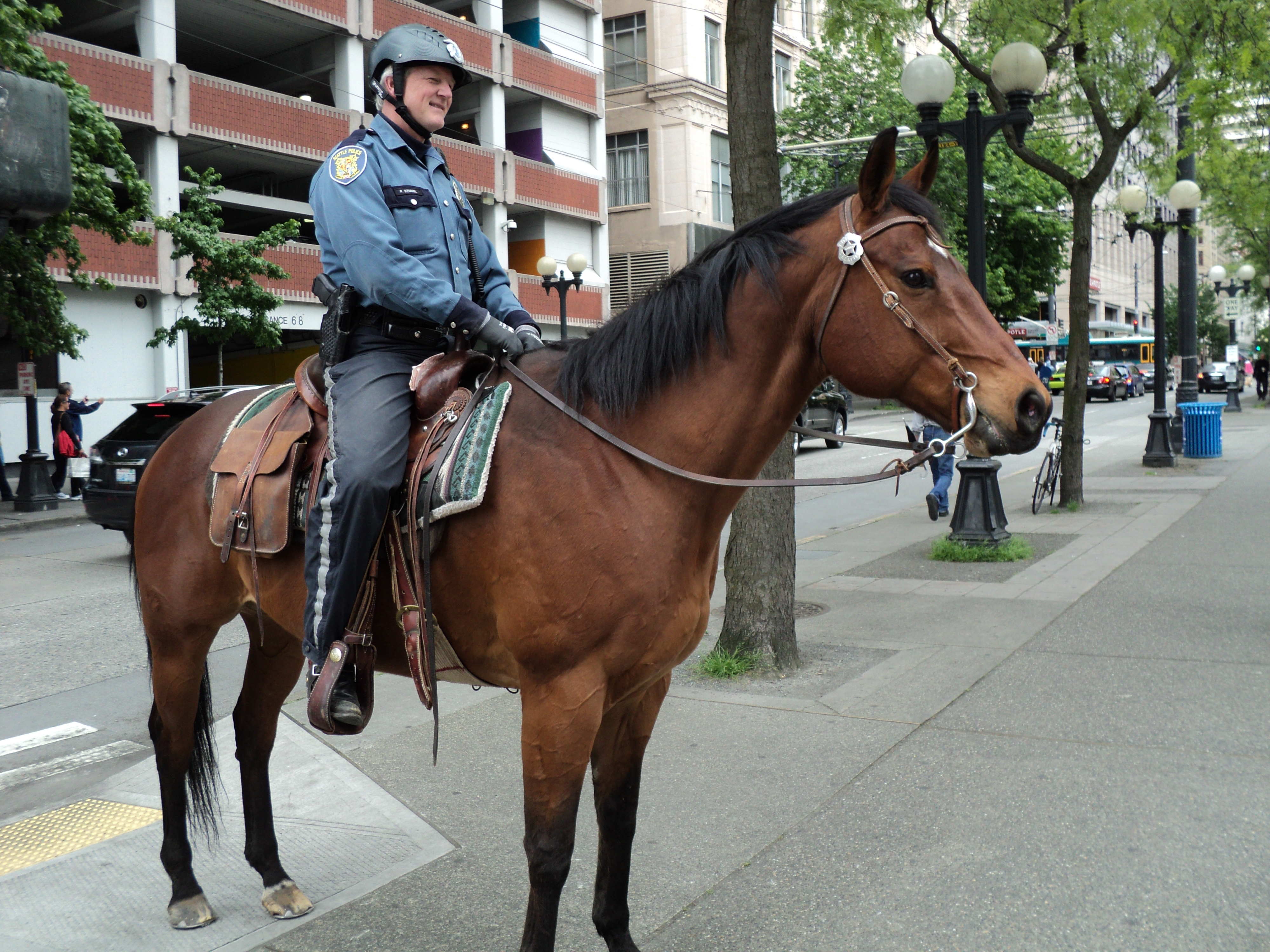 View of Seattle Police officer on horseback. The city has a number of such officers who ride horseback, particularly downtown.